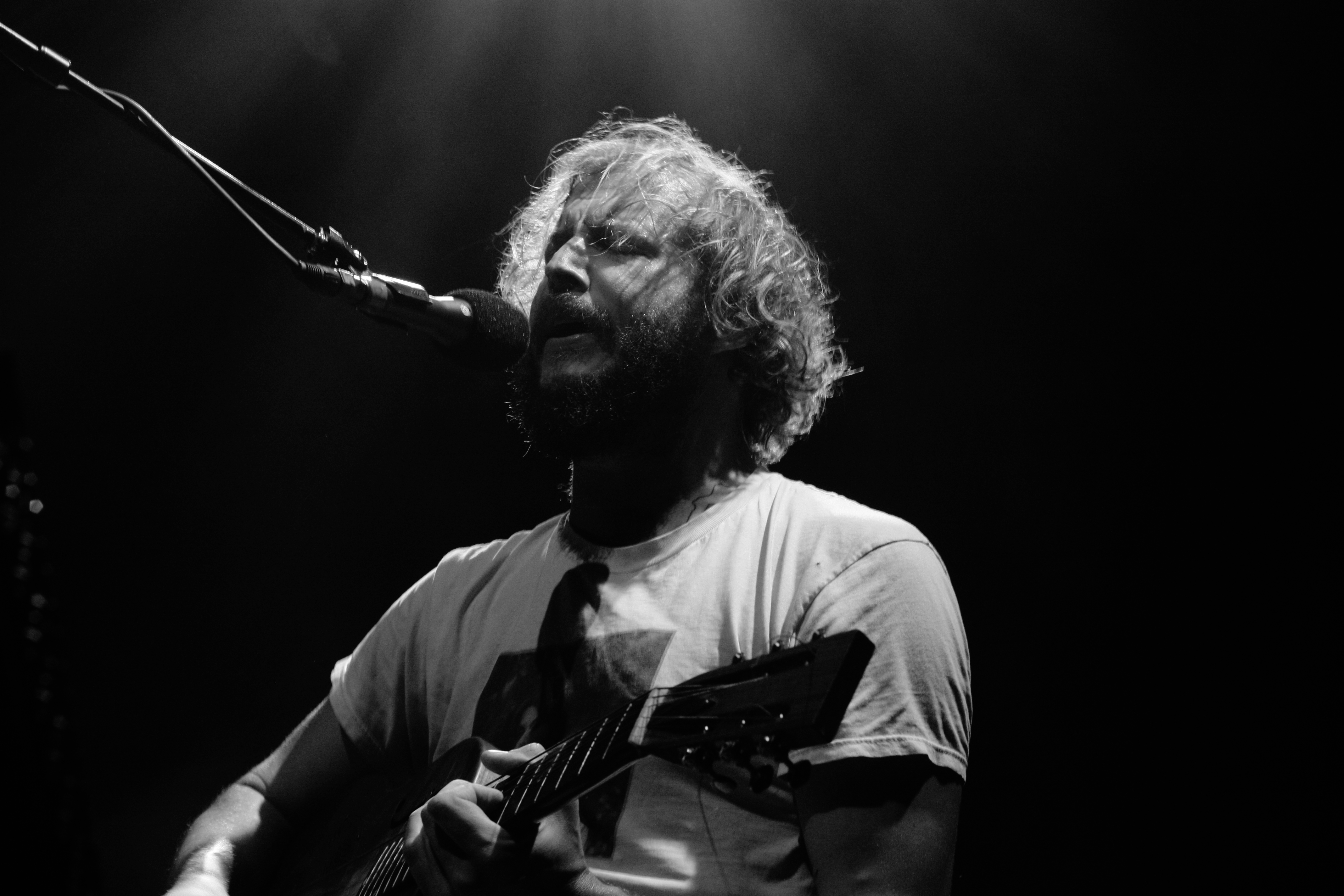 Bon Iver performing at The Fillmore